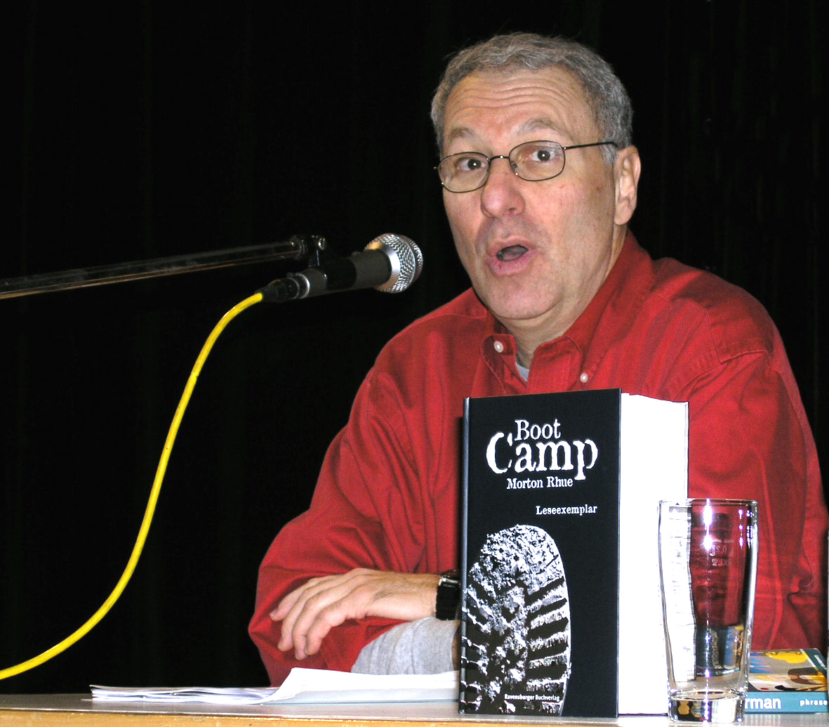 Todd Strasser (a.k.a. Morton Rhue reading from his book Boot Camp in Langenau.